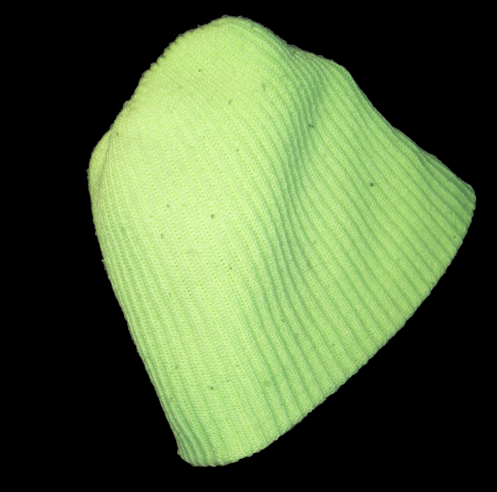 This is a picture of a bright yellow tuque taken by the owner. It is a synthetic wool version and often worn in cool weather.